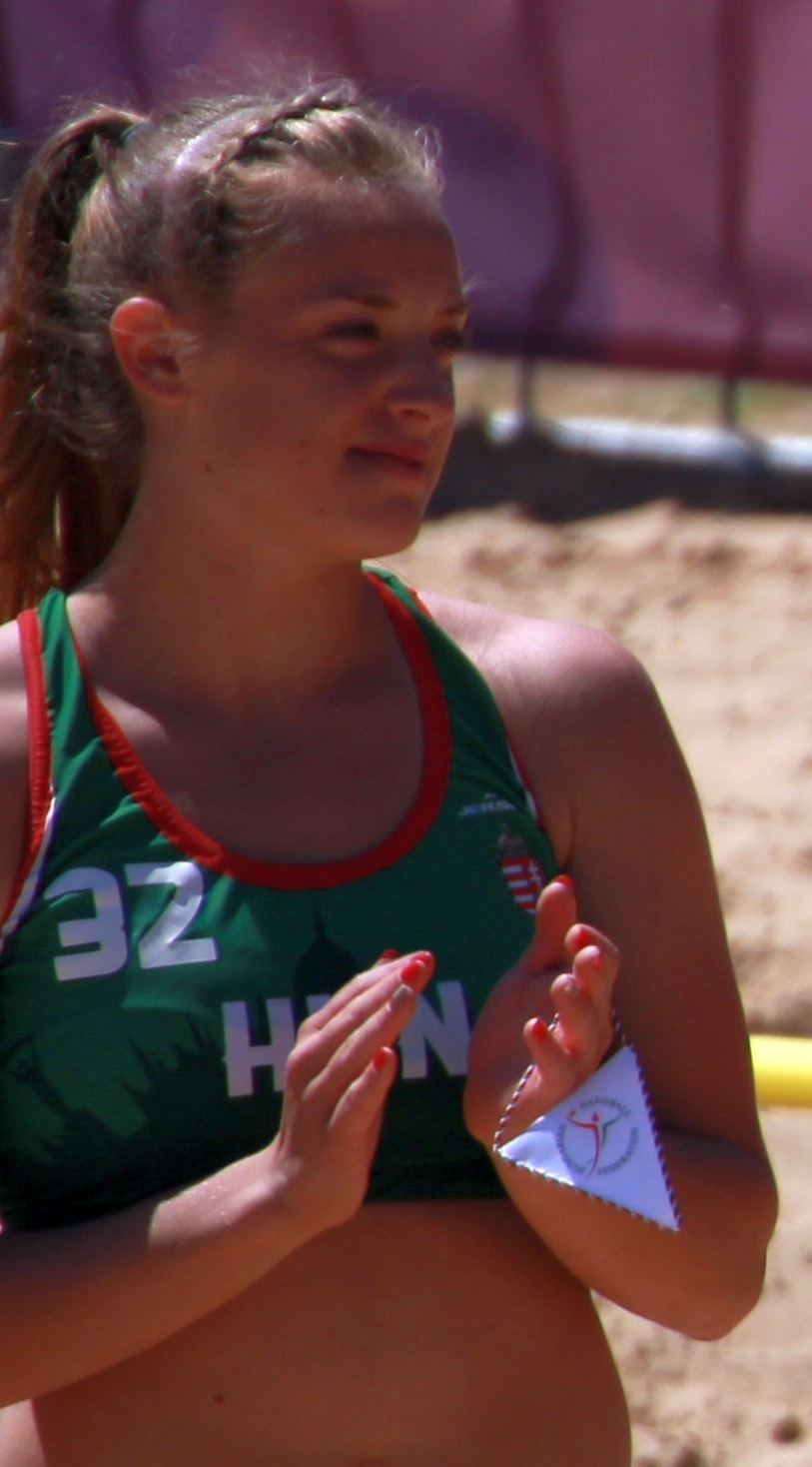 Beach handball at the 2018 Summer Youth Olympics at 10 October 2018 – Girls Preliminary Round Group A – Hungary-Chinese Taipei 2:0